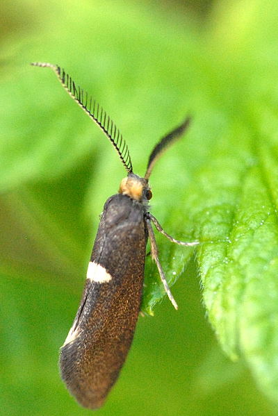 Incurvaria masculella from Commanster, Belgian High Ardennes .